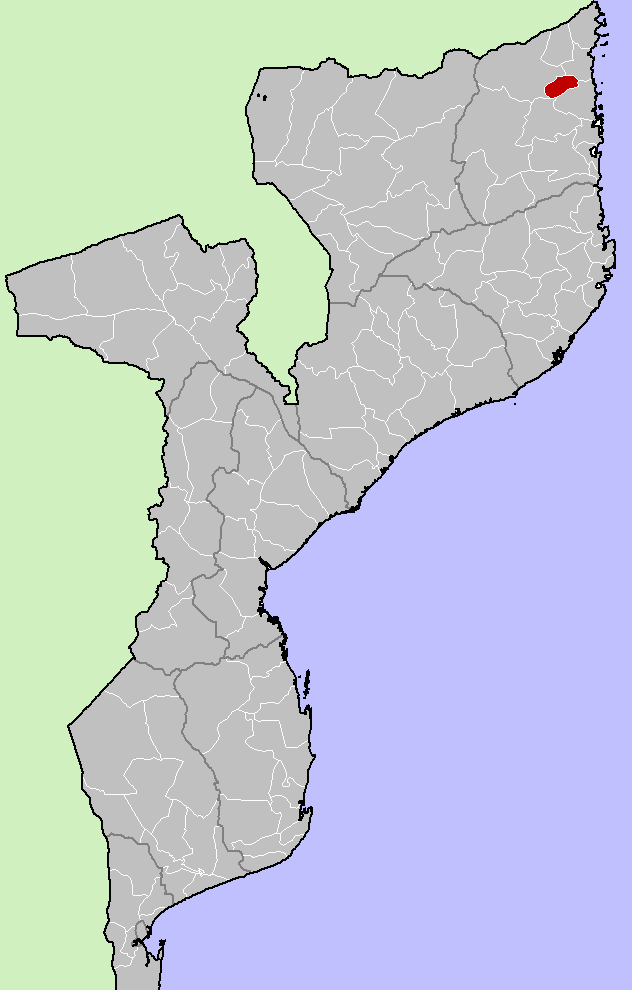 District locator in Mozambique